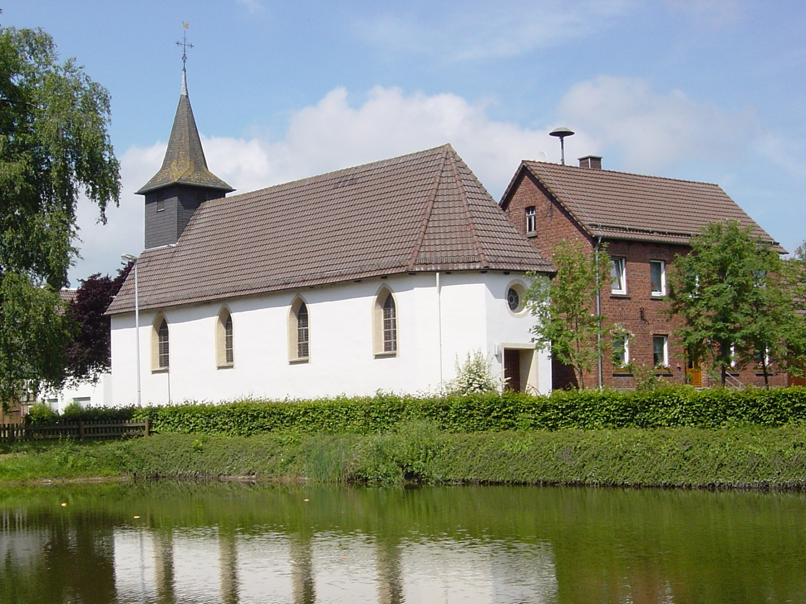 Church in Löwendorf (Germany)